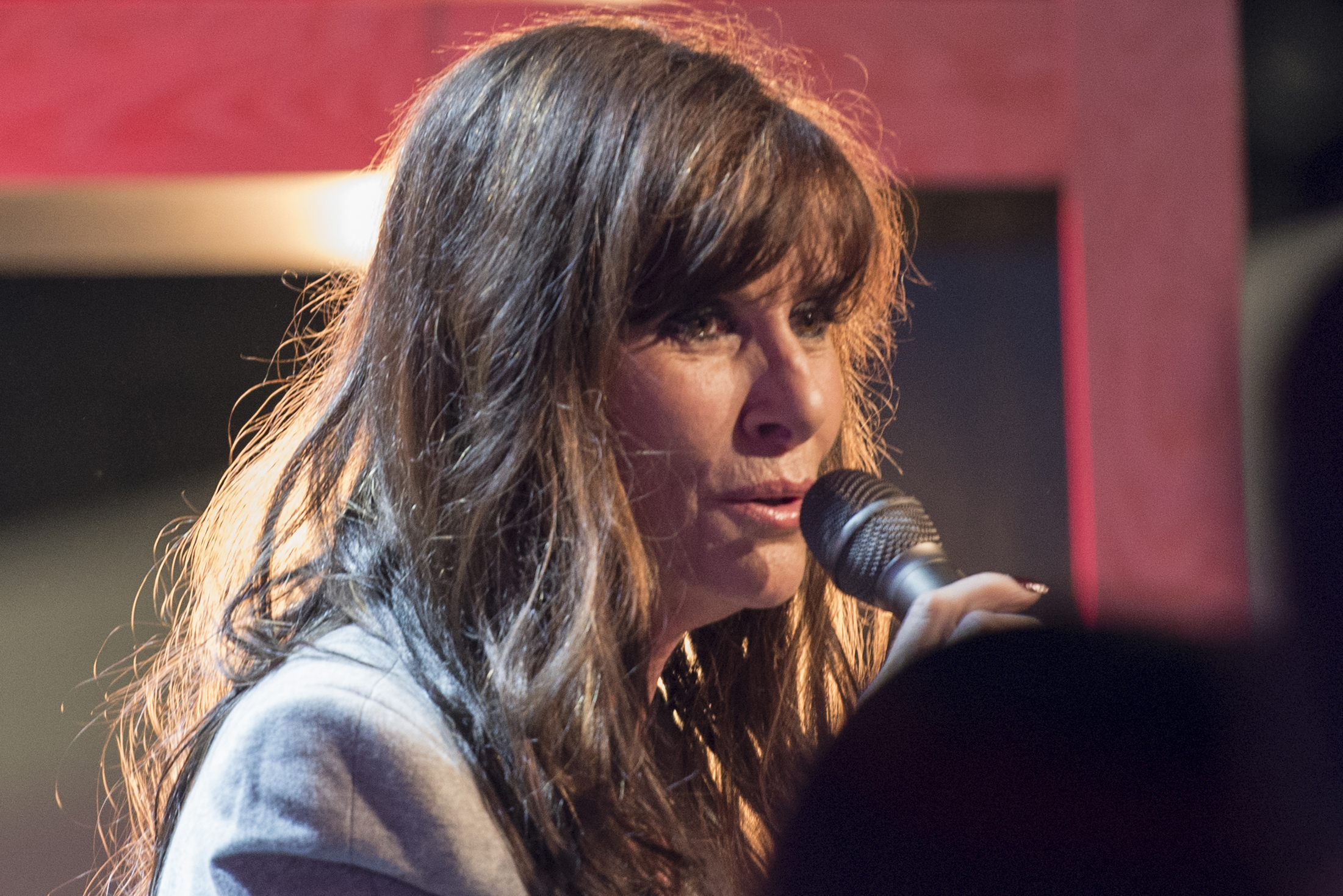 Linda Martin performs a cover of the Loreen song "Euphoria" in the Swedish TV-show "Live: Studio Eurovision" for SVT, in May 2013.